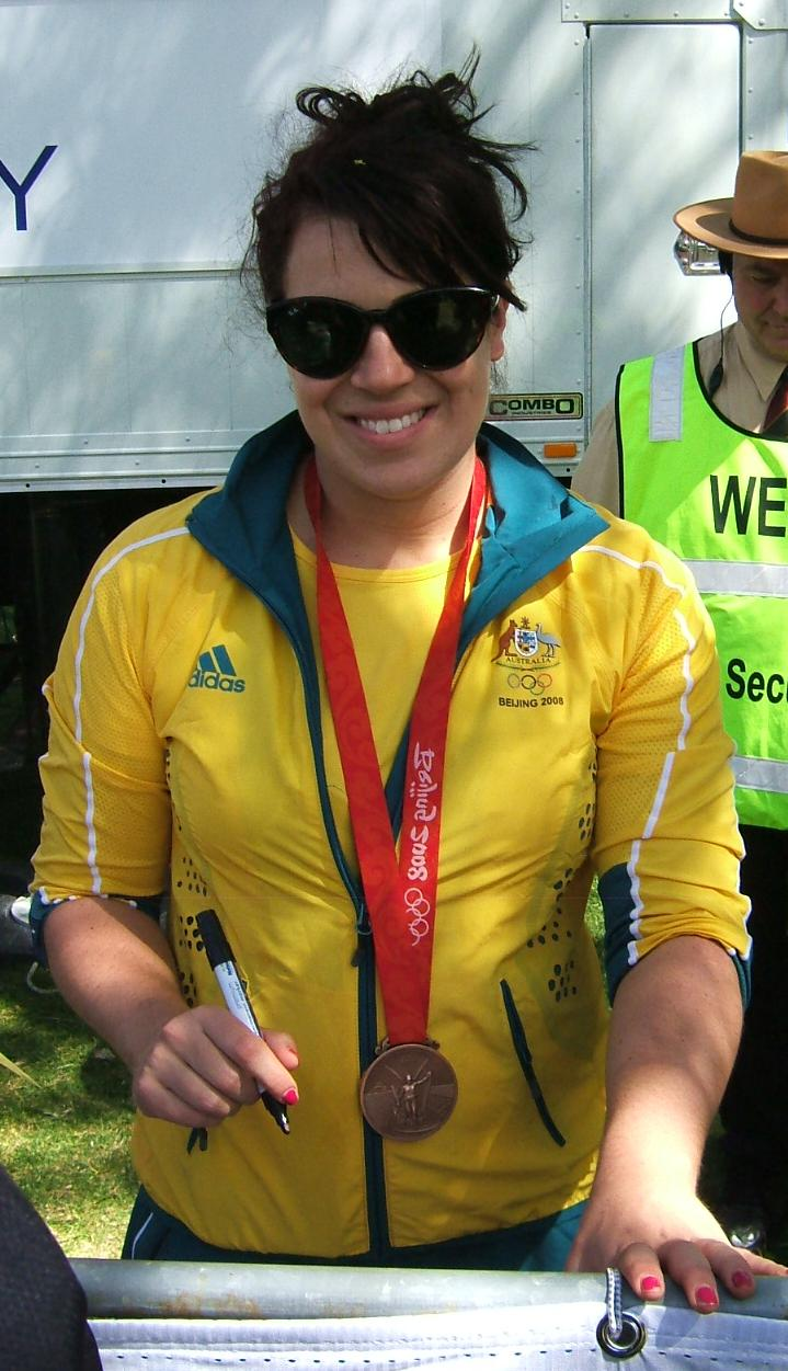 Mia Santoromito at the 2008 Olympic welcome home parade in Adelaide